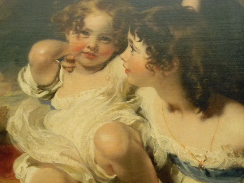 Detail from painting by Thomas Lawrence "The Calmady Children"